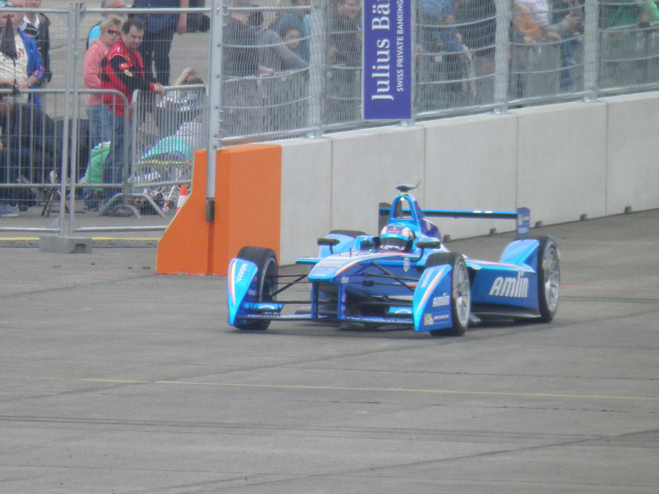 Antonio Felix da Costa, Amlin Aguri, driving in Berlin ePrix on May 23, 2015